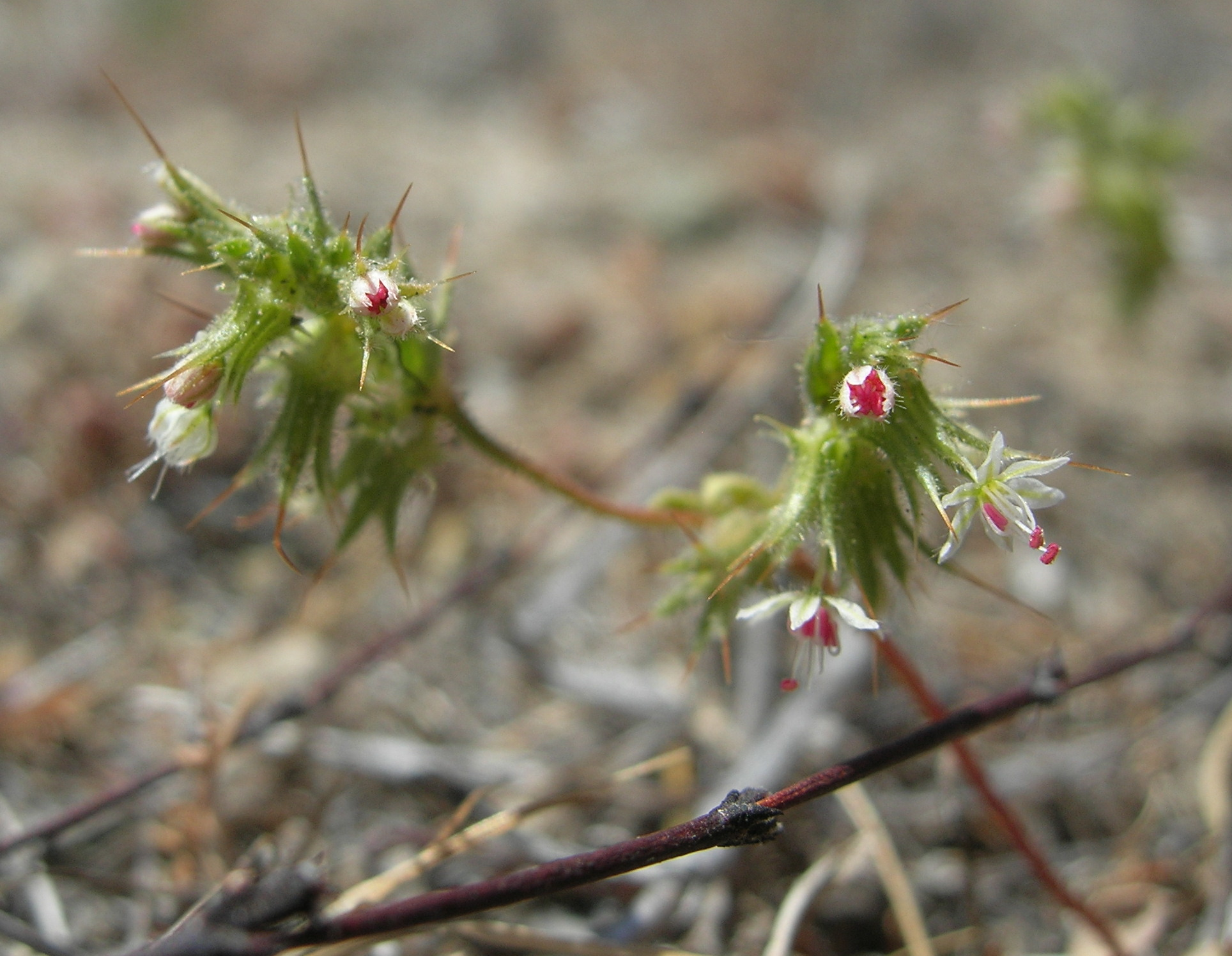 Dodecahema leptoceras (slender-horned spineflower), Bee Canyon, Los Angeles County